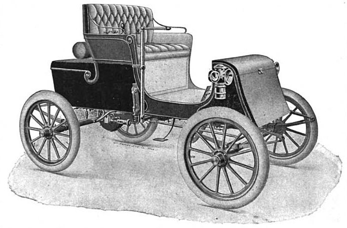 The image is of a 1903 Jaxon Steam Surrey Automobile produced by the Jackson Automobile Company of Jackson, Michigan. The image is from an advertisement. The scan comes from the google books archive: Title Automobile trade journal, Volume 7 Publisher Chilton Company, 1903 Original from the University of Michigan Digitized Apr 27, 2006